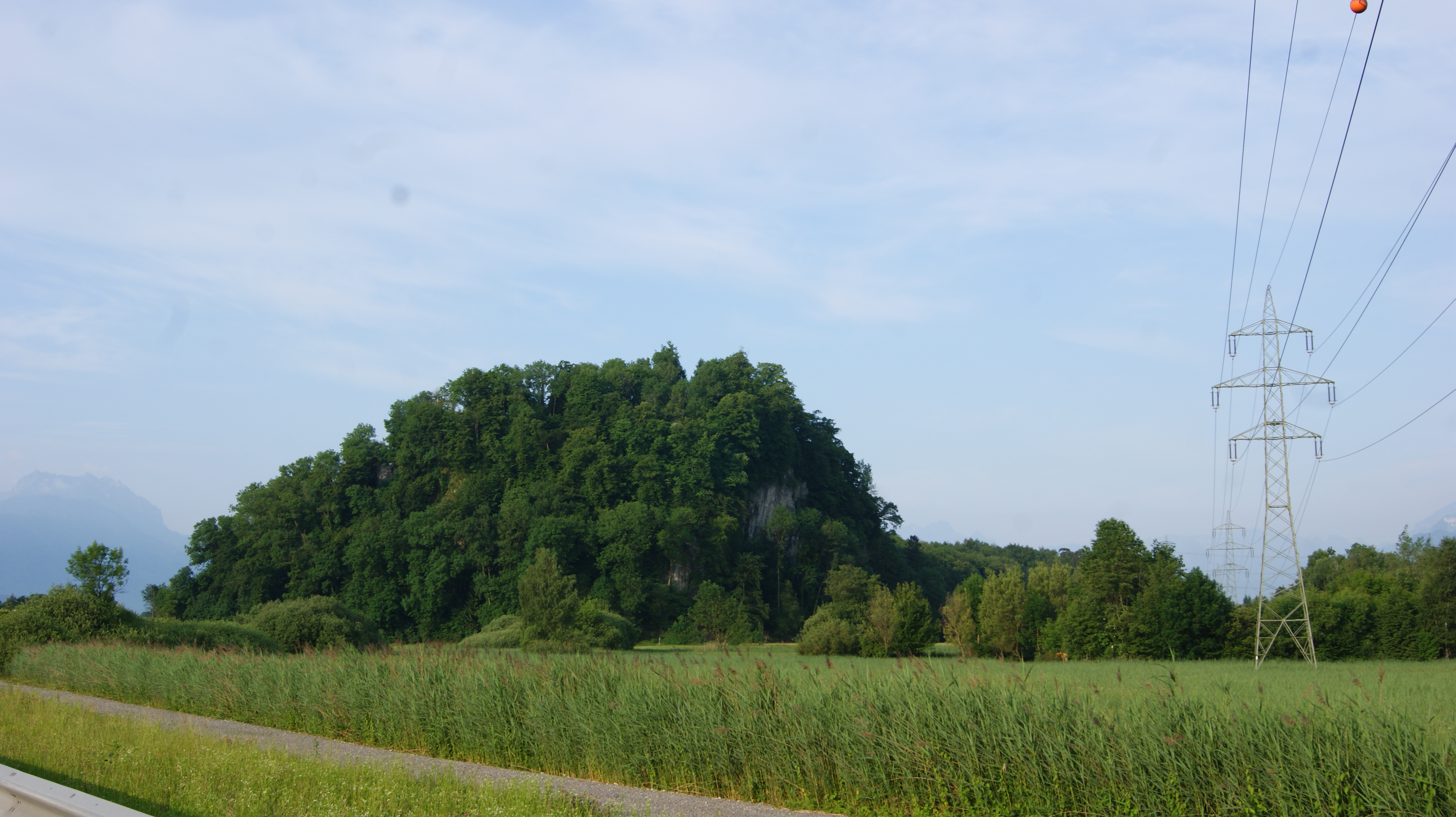 Castle hill in Koblach (Vorarlberg, Austria), nature reserve, in the picture the ruin Neuburg.